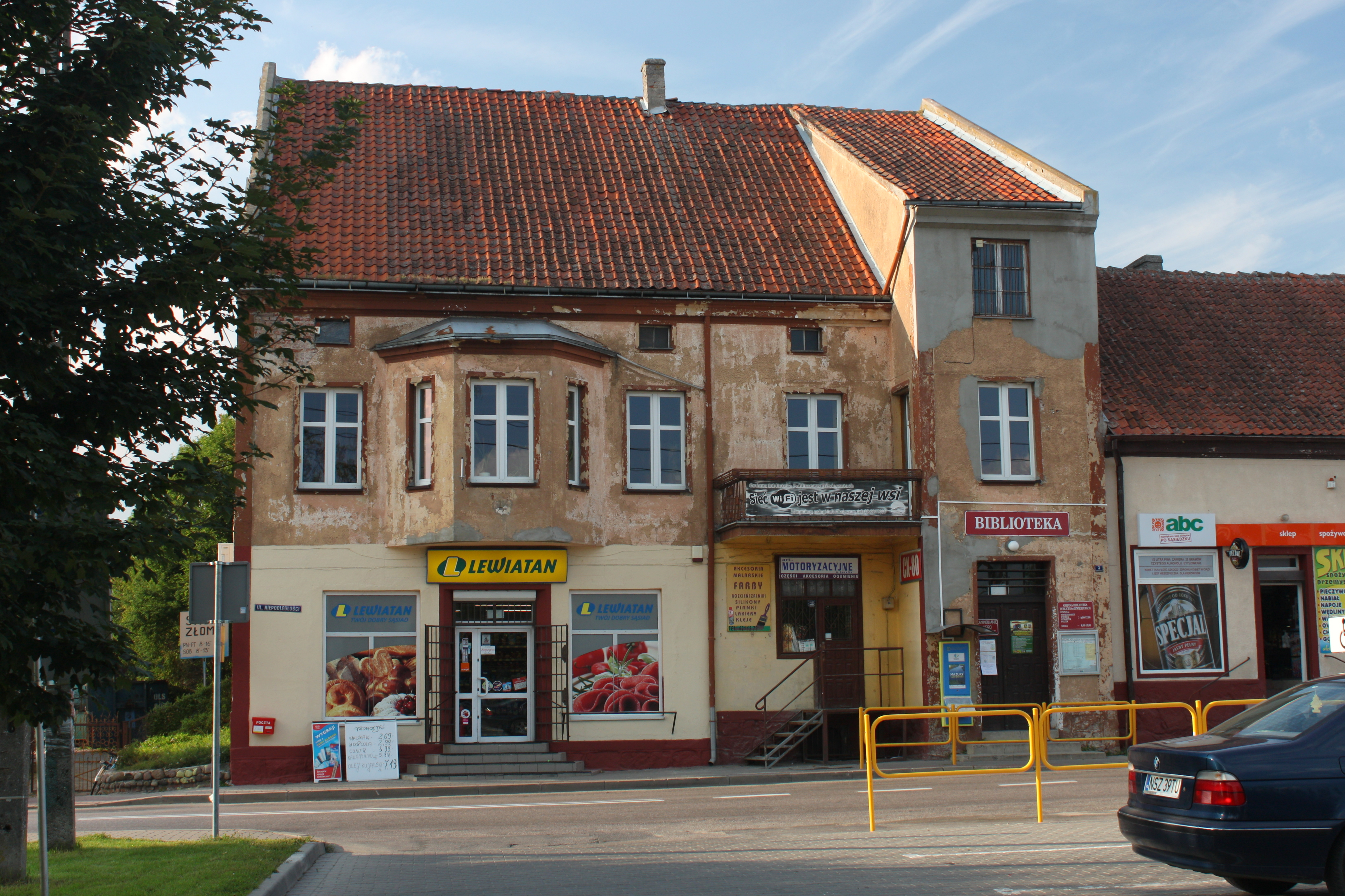 Building in Dźwierzuty.